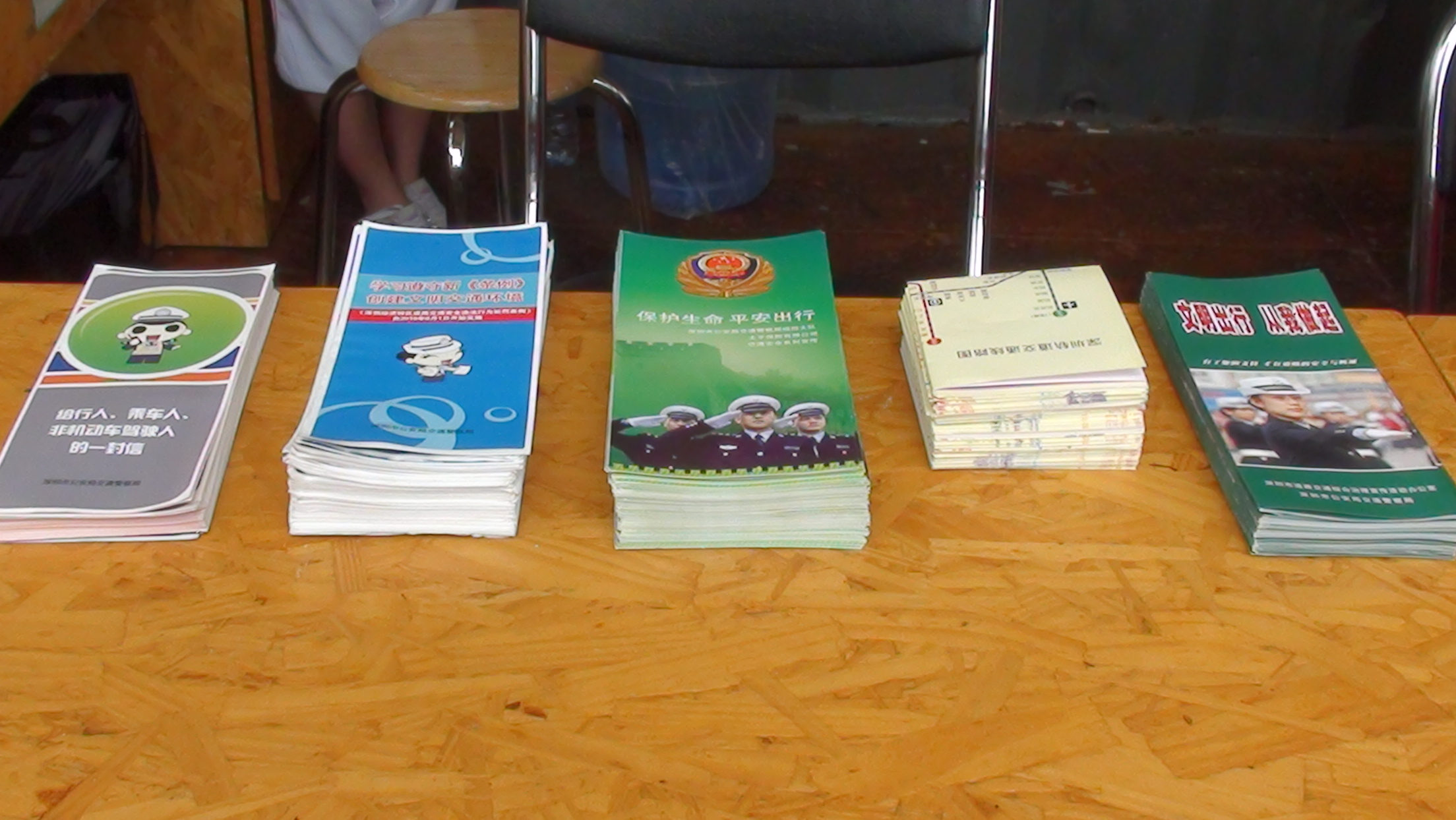 some help files for people in an volunteers station in Shenzhen,China